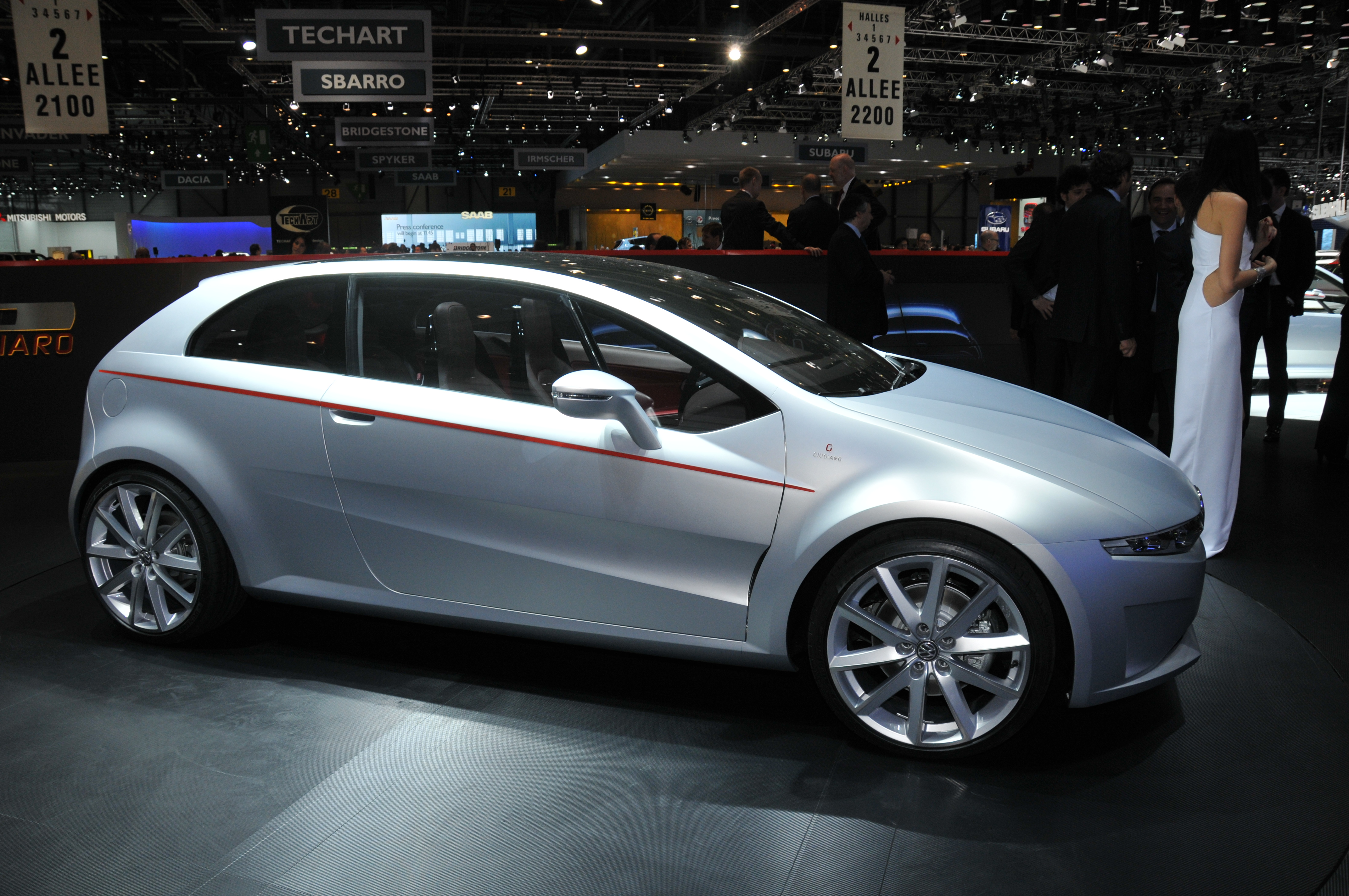 Italdesign TEX at the 2011 Geneva Motor Show. More pictures and info